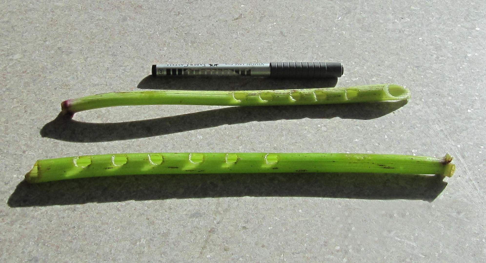 The sami instrument fádno